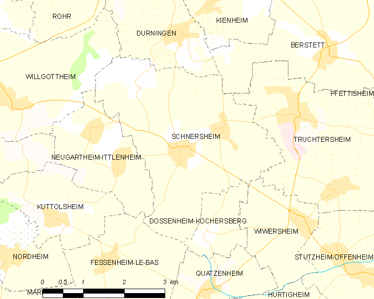 Map of French municipality